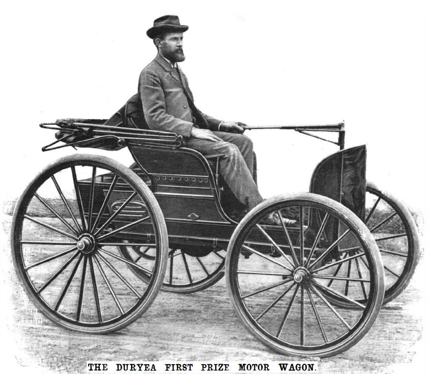 The Frank Duryea first prize motor wagon (the 'Chicago Times-Herald race', november 28, 1895)